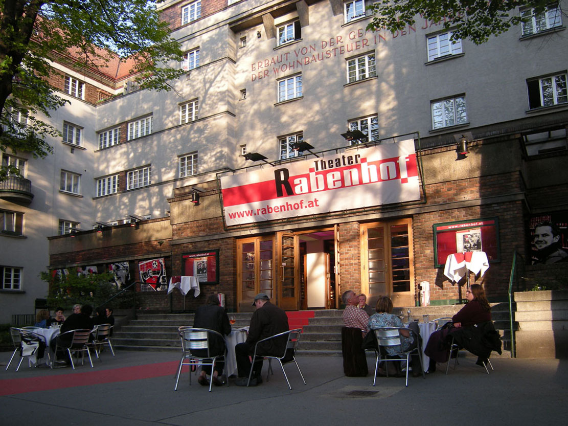 Rabenhof Theater, Vienna, Austria Camera time stamp is set to UTC, which is local CEST-2.